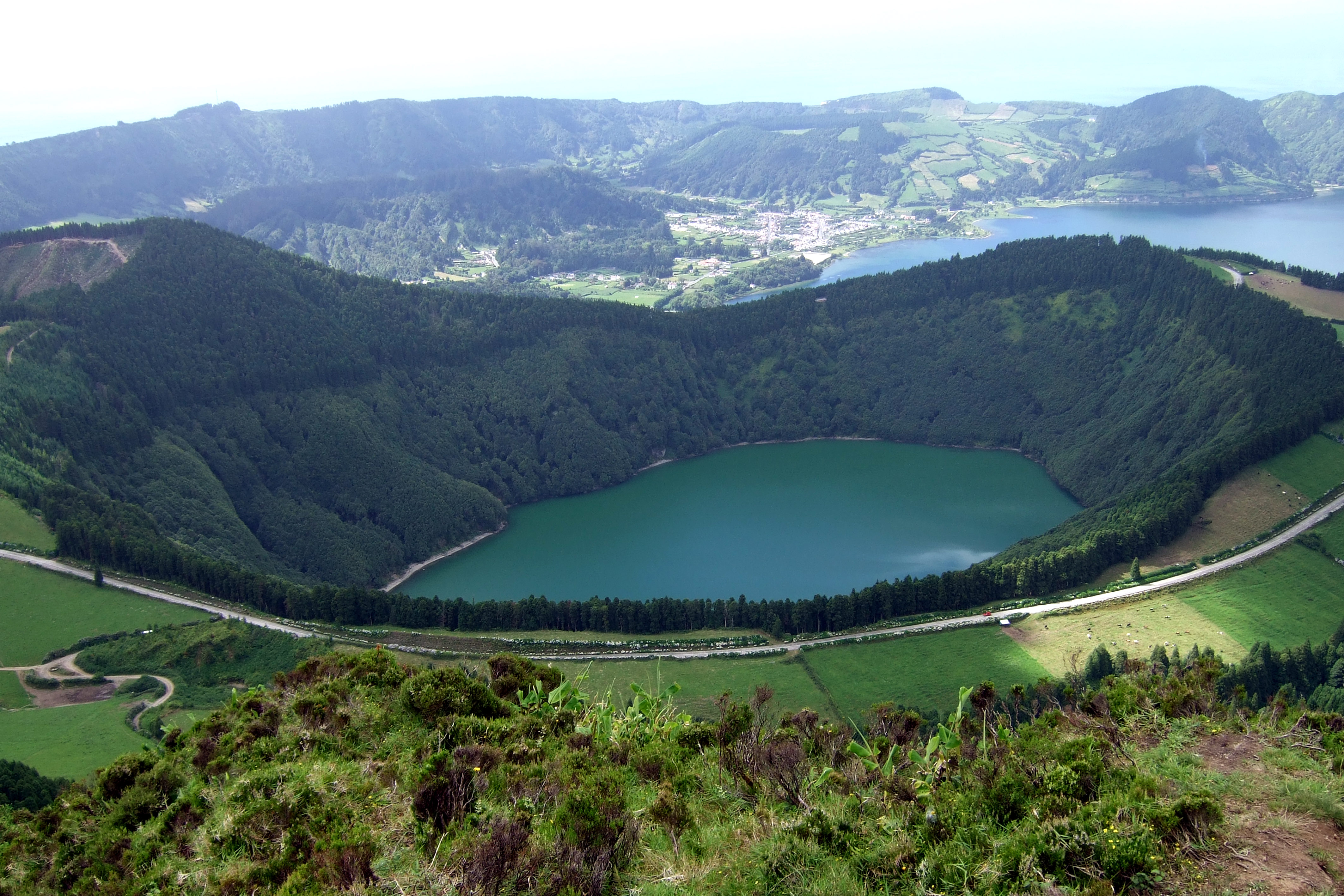 Sao Miguel Island (Azores). Sete Cidades Caldera, Lagoa de Santiago, AzoresRomână: Insula Sao Miguel (Azore). Sete Cidades Caldera, Lagoa de Santiago, Azore